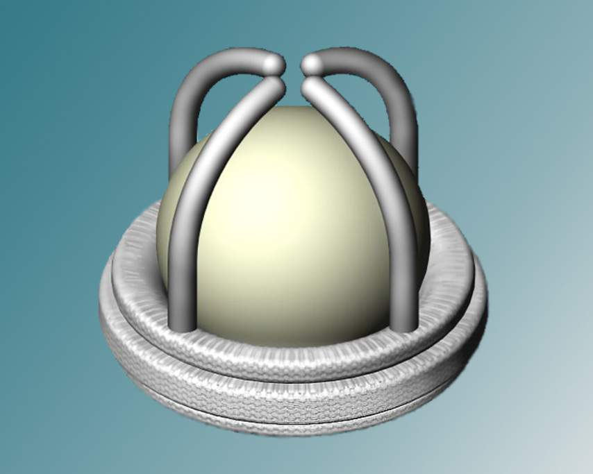 Model MKCH-25 artificial heart valve